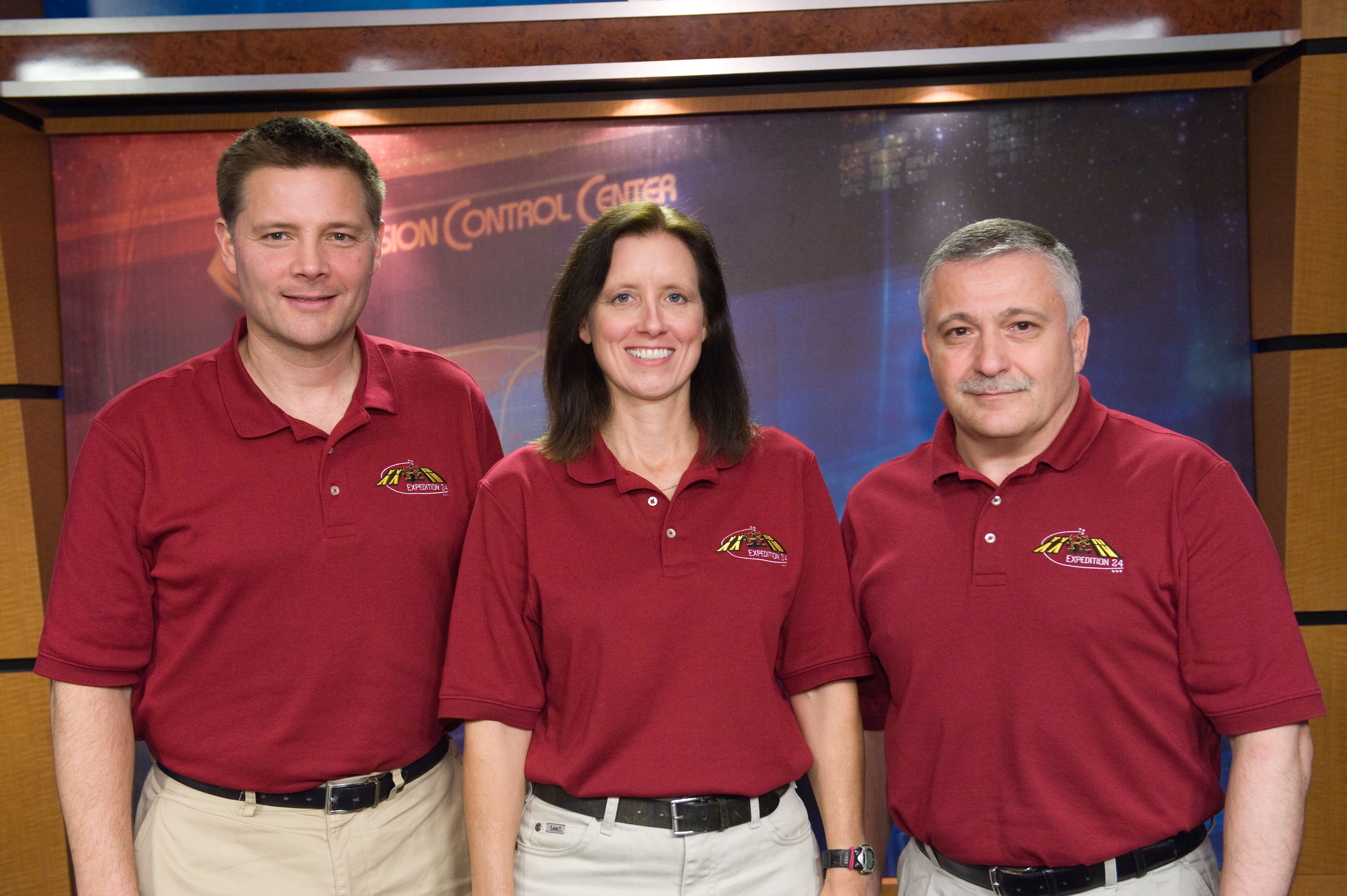 NASA astronaut Doug Wheelock (left), Expedition 24 flight engineer and Expedition 25 commander; NASA astronaut Shannon Walker and Russian cosmonaut Fyodor Yurchikhin, both Expedition 24/25 flight engineers, pose for a portrait following an Expedition 24/25 preflight press conference at NASA's Johnson Space Center. Wheelock, Walker and Yurchikhin are scheduled to launch to the International Space Station aboard a Russian Soyuz spacecraft in June 2010.